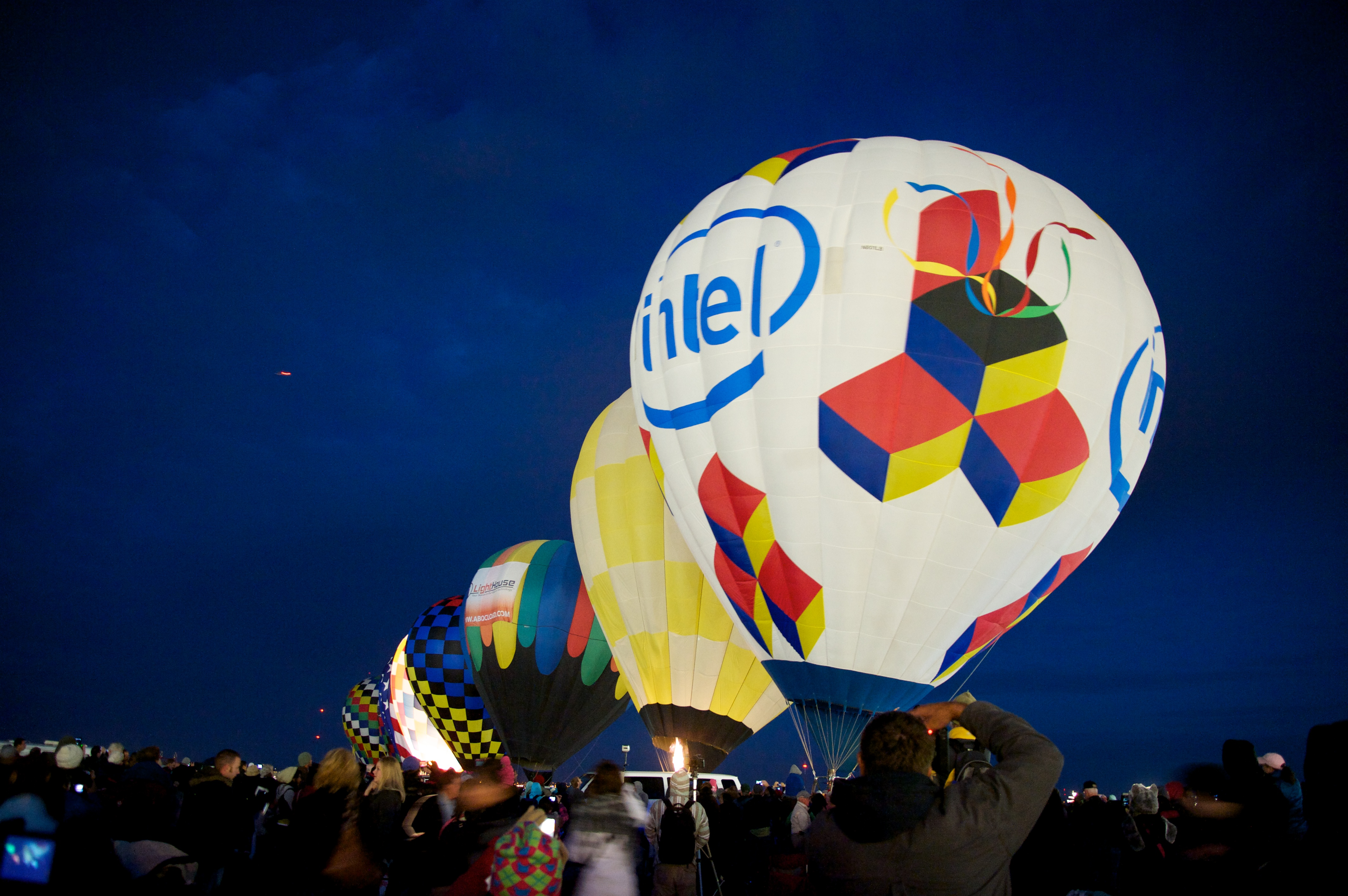 Dawn Patrol is a small group of balloons that go up before the rest to check conditions. They light up before dawn for a 5:45am departure. Albuquerque International Balloon Fiesta, 2012. Over 750 ballons on site.